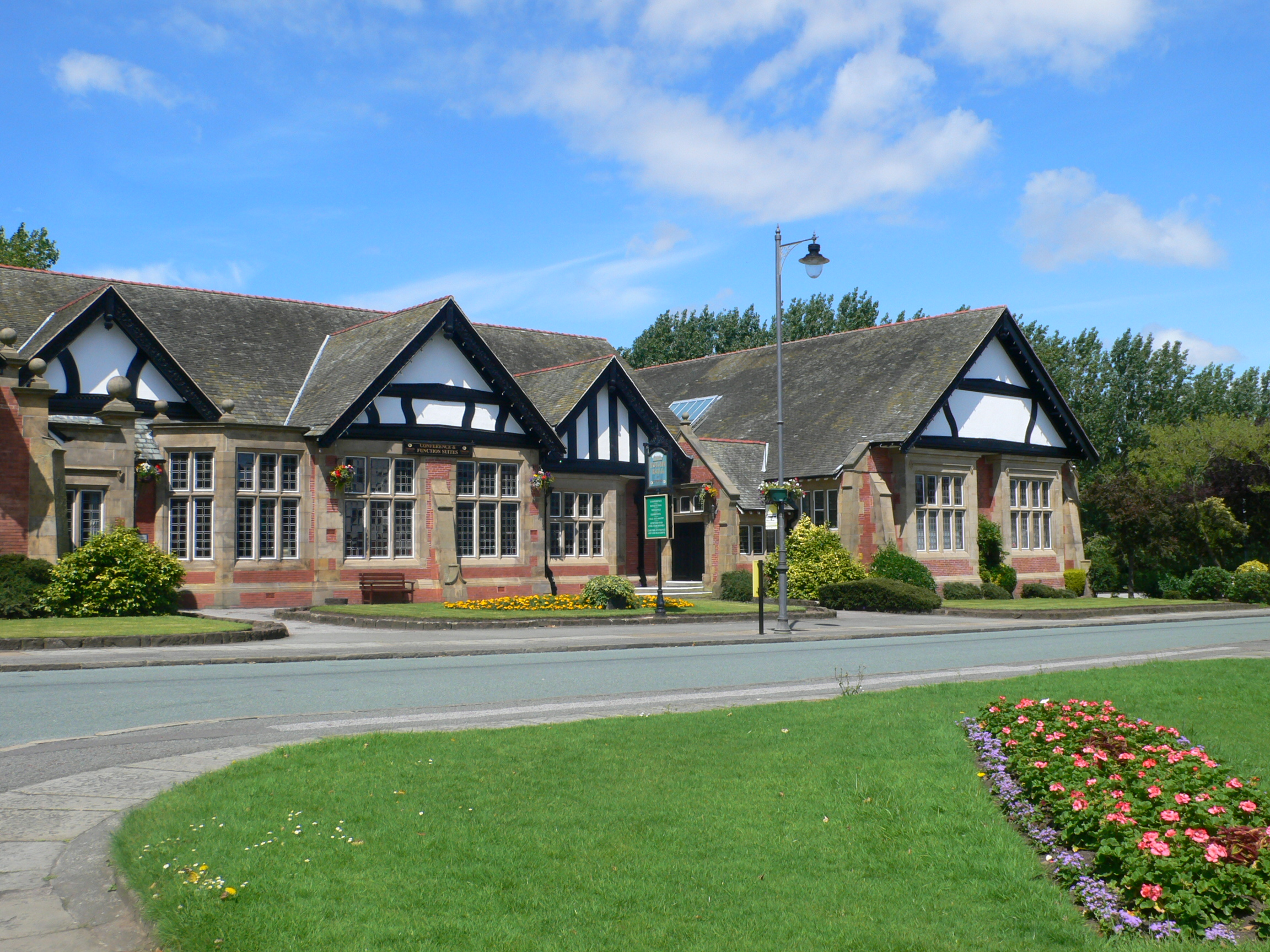 Photograph of Hulme Hall, Port Sunlight, Merseyside